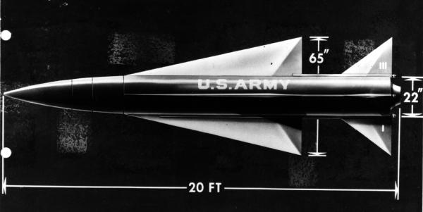 The General Electric FABMDS (Field Army Ballistic Missile Defense System) concept.